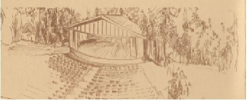 Drawing of the theater, Property of the Sundance Festival for the Chamber Arts